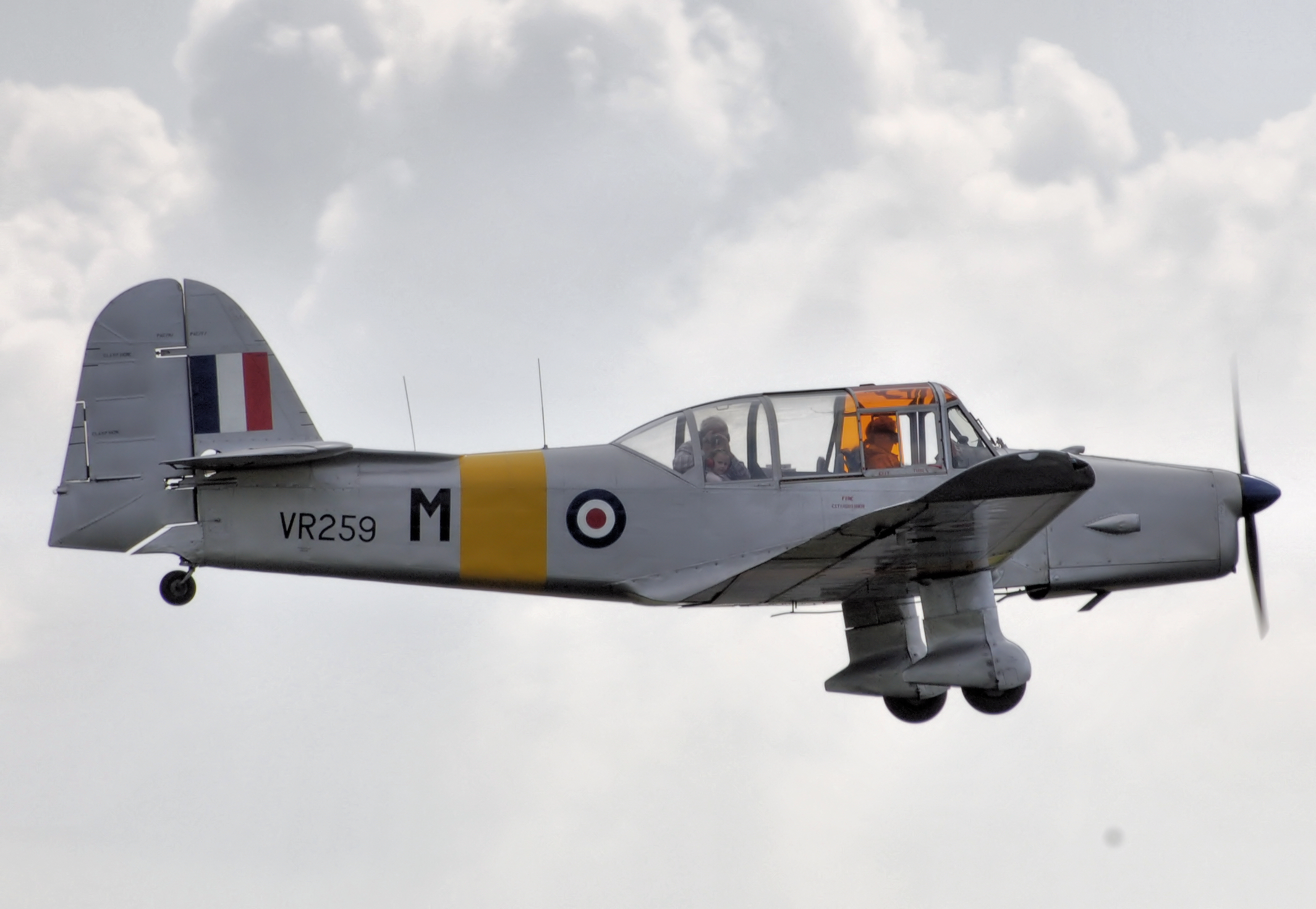 Percival P.40 Prentice T.1 (VR259/M, G-APJB) giving a pleasure flight at Kemble Airport, Gloucestershire, England. The aircraft is owned by the Air Atlantique Classic Flight, Coventry, England. The girl seen is having a treat for her fifth birthday at the Kemble Open Day on 9th September 2007. The aircraft was built in 1948. Photographed by Adrian Pingstone and placed in the public domain.